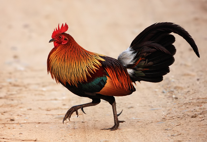 Red Jungle fowl at Jim Corbett National Park, India